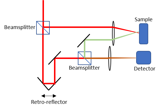 Diagram of a hypothetical ms/LCI setup. Beamsplitters are used to separate and combine the reference and sample beams in a Mach-Zehnder interferometer configuration, and distinct illumination and detection beams in the sample are present in both the time and spectral domain implementations. In time-domain ms/LCI, the retro-reflector allows for precise path matching while in spectral-domain ms/LCI is used as part of the enhanced depth imaging technique to move the zero-path delay point. In time-domain ms/LCI the laser source can be either pulsed or continuous wave subject to an acousto-optic modulator with a balanced optical receiver as the detector. In spectral-domain ms/LCI the laser source and detector must be capable of emitting and detecting broadband light.